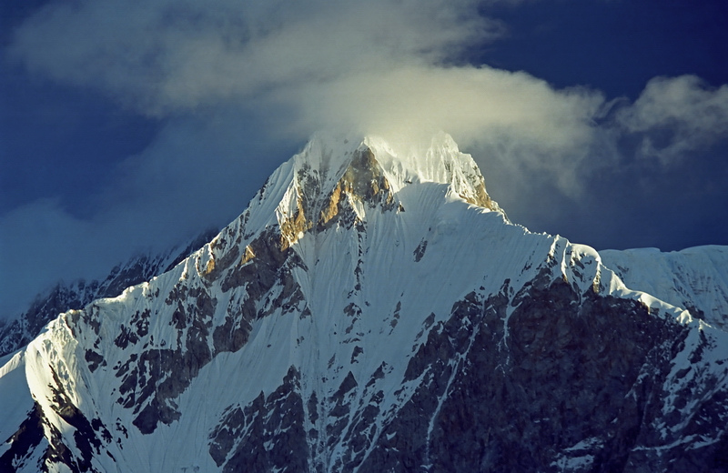 The hills Central Tian Shian is located in Central Asia. On the maximum points of this file there passes border of three countries - China, Kazakhstan and the Kirghizstan. On gorges of this hills powerful glaciers with the glacial rivers and lakes proceed. Here the most northern peaks with a mark above 7000м. Peak of Khan Tengri 7010м., and peak the Pobeda 7439м are located. (The mountain's official name in Kyrgyz is Jengish Chokosu, which means "Victory Peak")